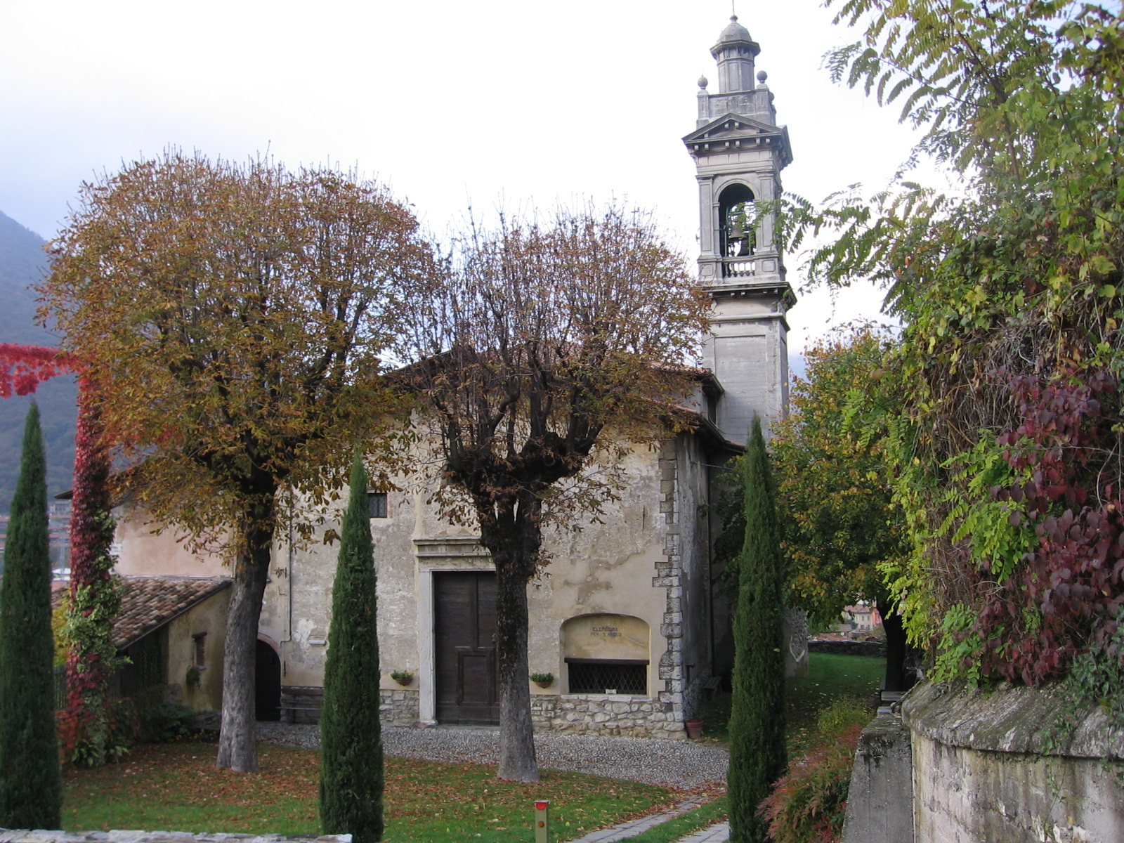 Saint Rochus church, Albino (Bergamo), Italy